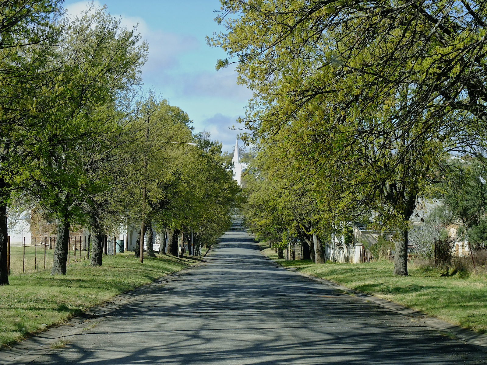 Dutch Reformed Church, Charles Street, Somerset East This media shows a South African Protected Site with SAHRA file reference 9/2/082/0006.